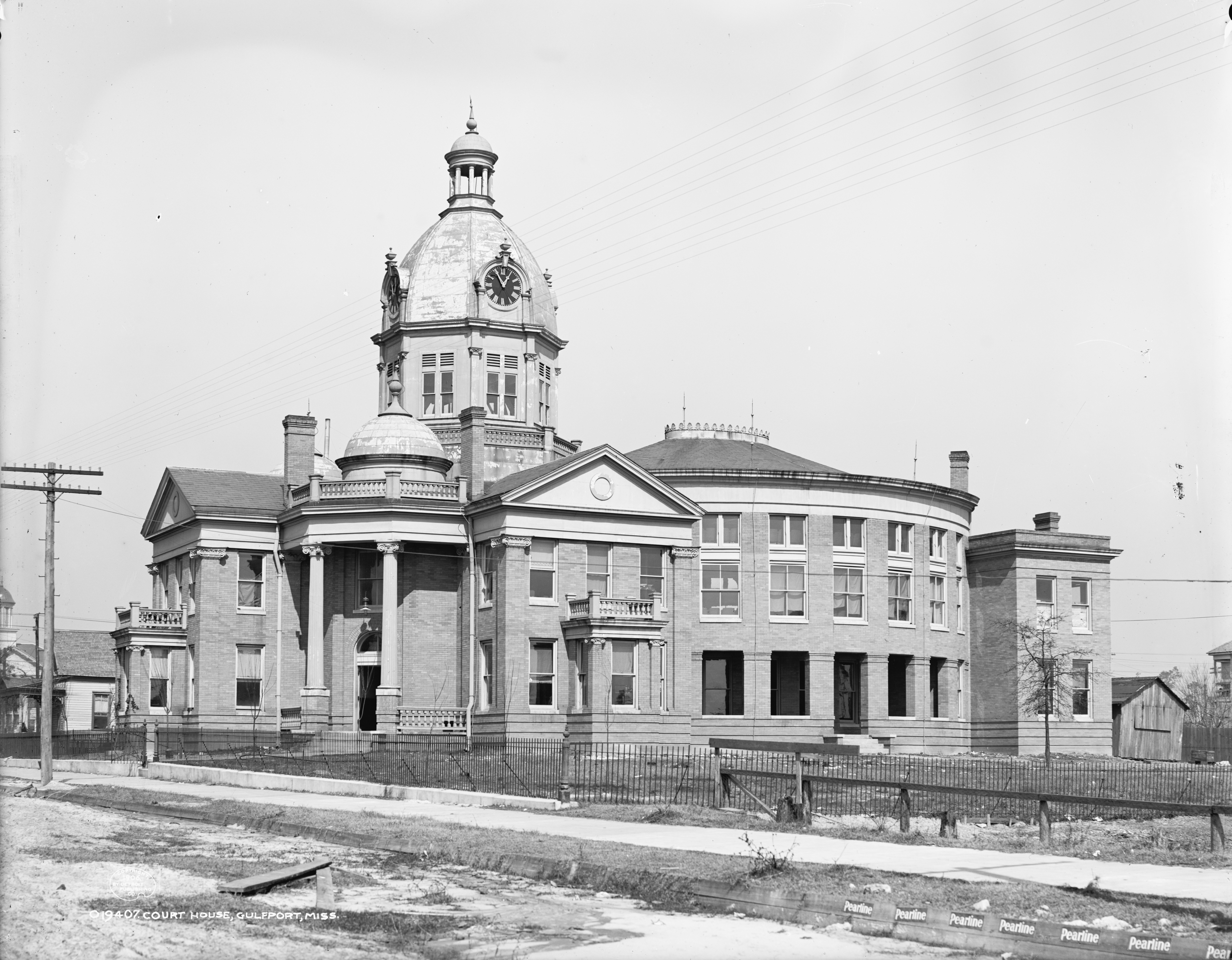 Courthouse, Gulfport, Miss.